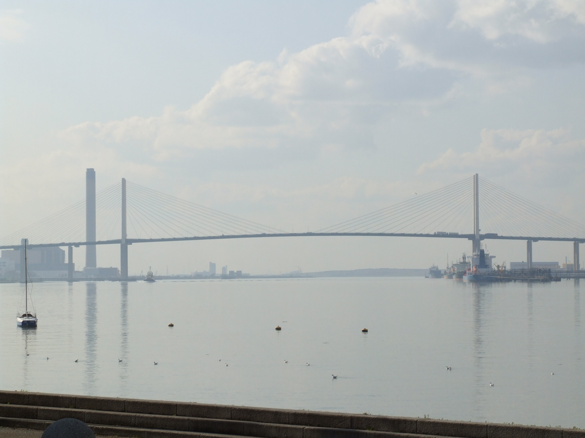 Greenhithe, Kent in April 2008. Looking up Long Reach, on the River Thames, from Ingress Park, Ahead is the Dartford bridge, on the far bank is West Thurrock. - OpenStreetMap (Info)